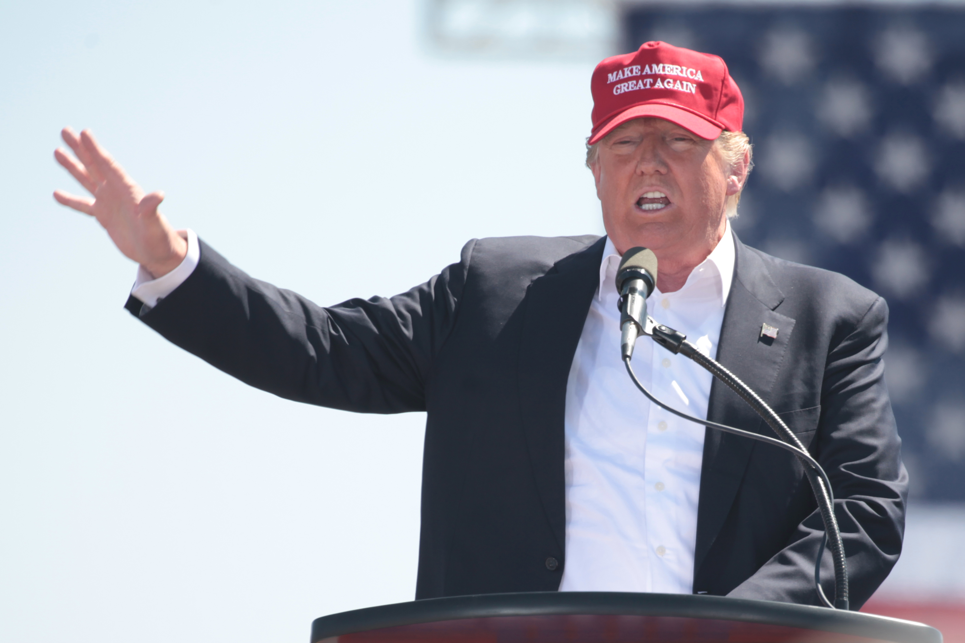 Donald Trump speaking with supporters at a campaign rally at Fountain Park in Fountain Hills, Arizona.